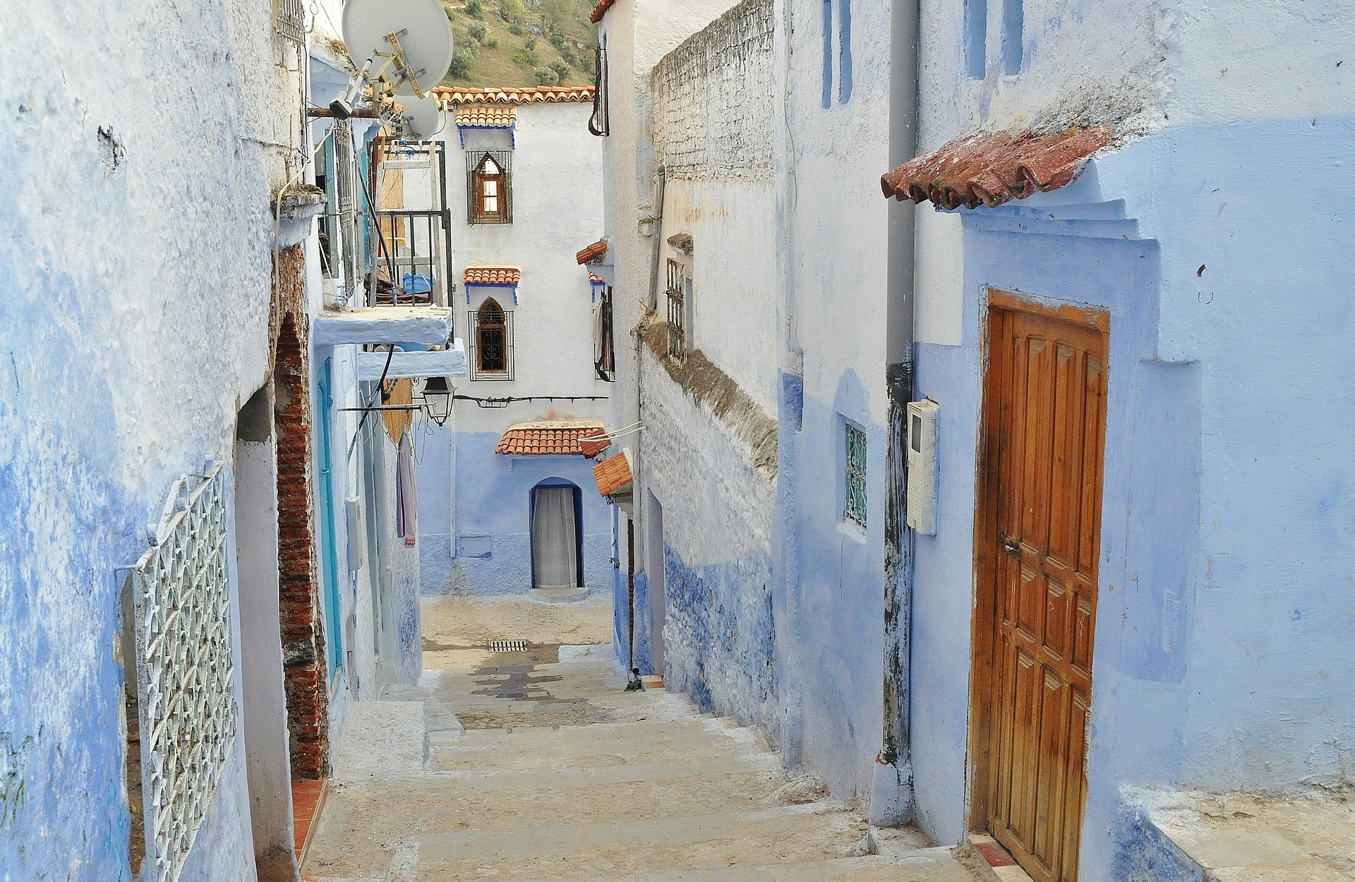 Alley in Morocco